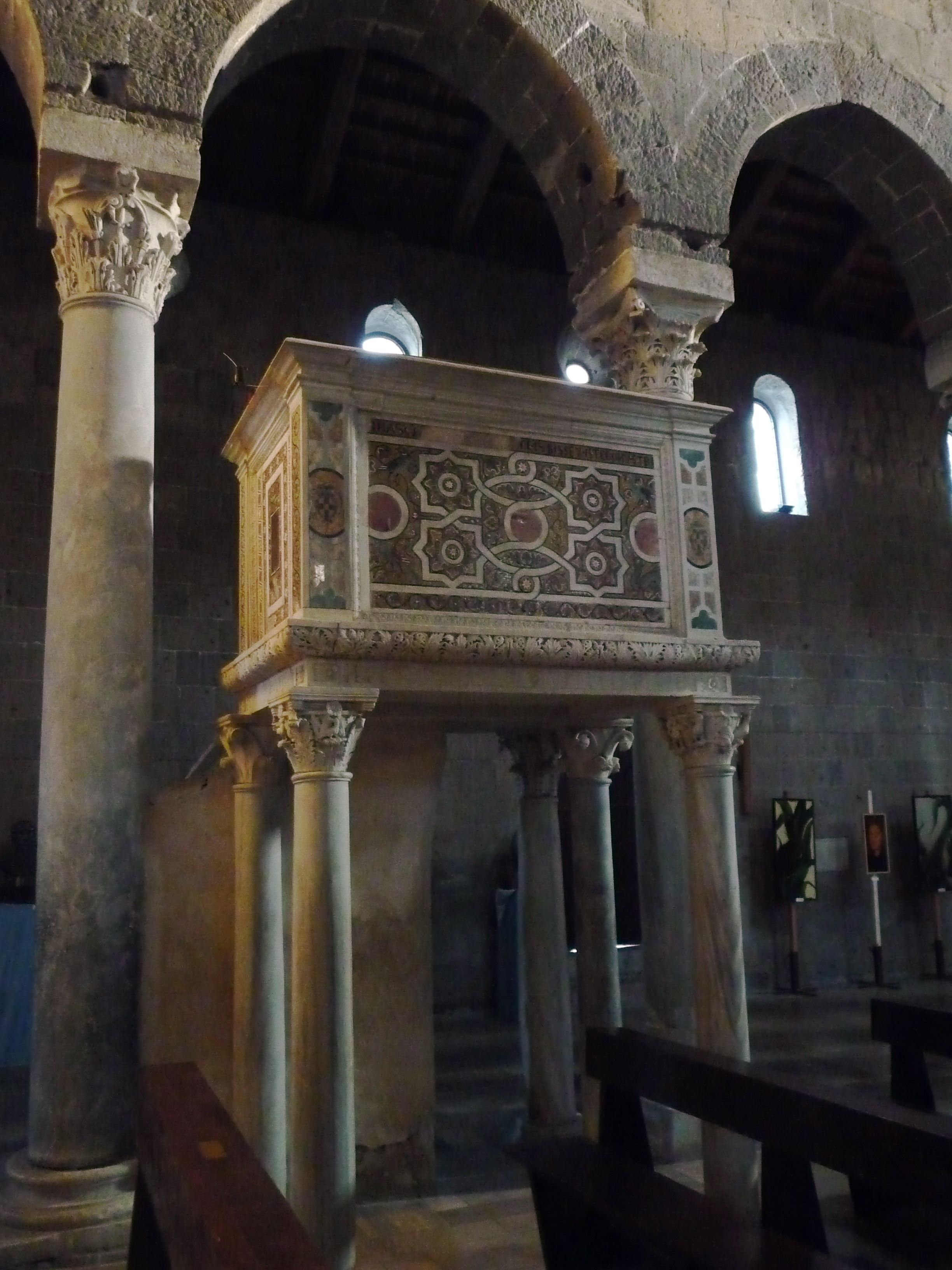 Cathedral of San Michele Arcangelo in Casertavecchia, province of Caserta.